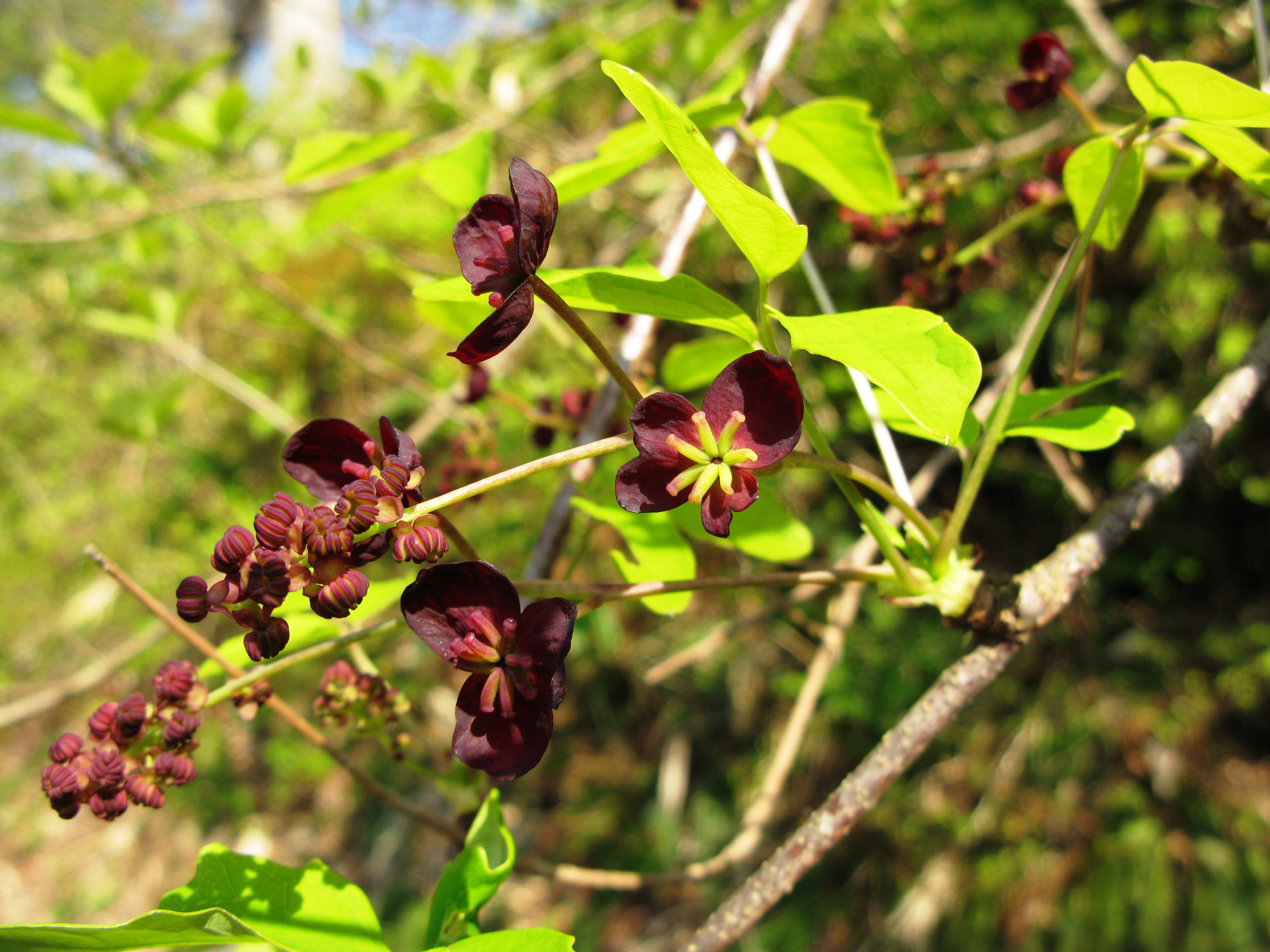 Akebia trifoliata, Aizu area, Fukushima pref., Japan